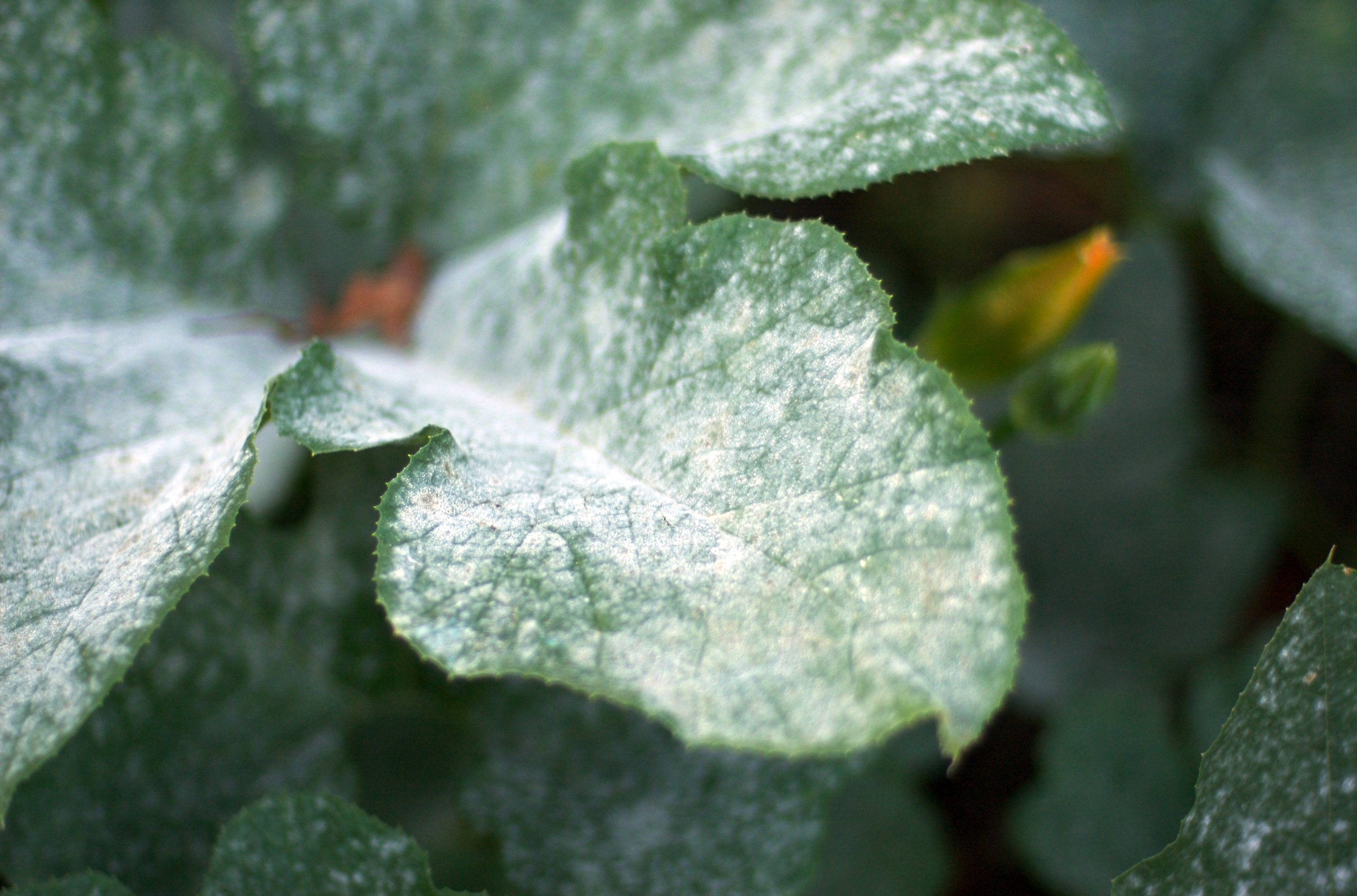 Powdery mildew on pumpkin leaves.